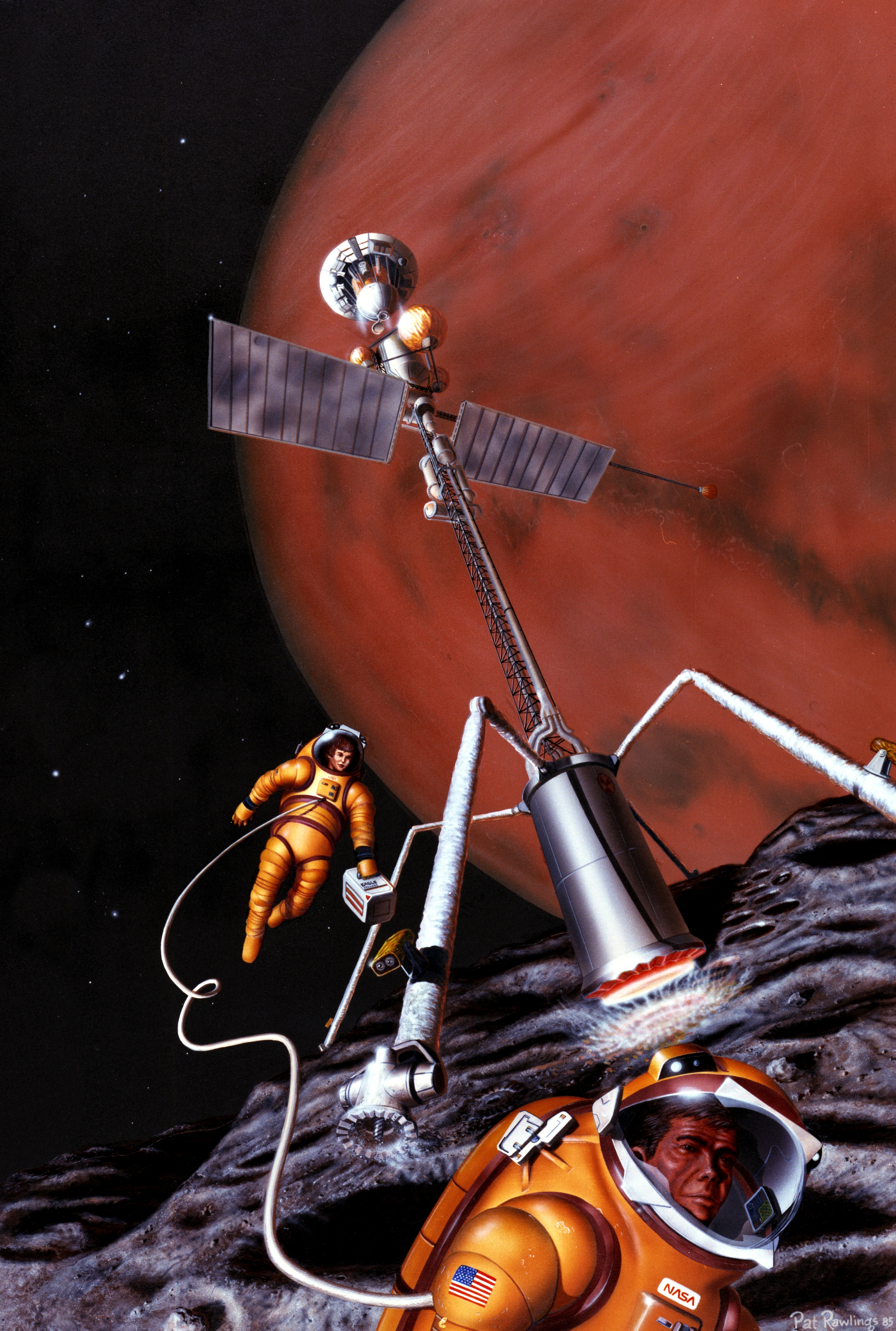 Image Title: Exploration Imagery Description: Artist's concept of possible exploration programs S86-25375 (1986) --- (Artist's concept of possible exploration programs.) On Phobos, the innermost moon of Mars and likely location for extraterrestrial resources, a mobile propellant-production plant lumbers across the irregular surface. Using a nuclear reactor the large tower melts into the surface, generating steam which is converted into liquid hydrogen and liquid oxygen.